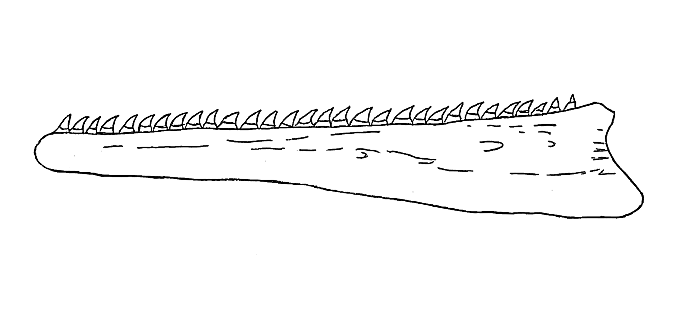 Reconstructed dentary of Pluridens walkeri based on figures in Lingham-Soliar (1998).